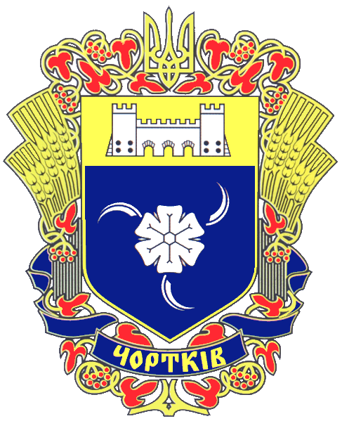 Coat of Arms of Chortkiv Ternopil Oblast Ukraine